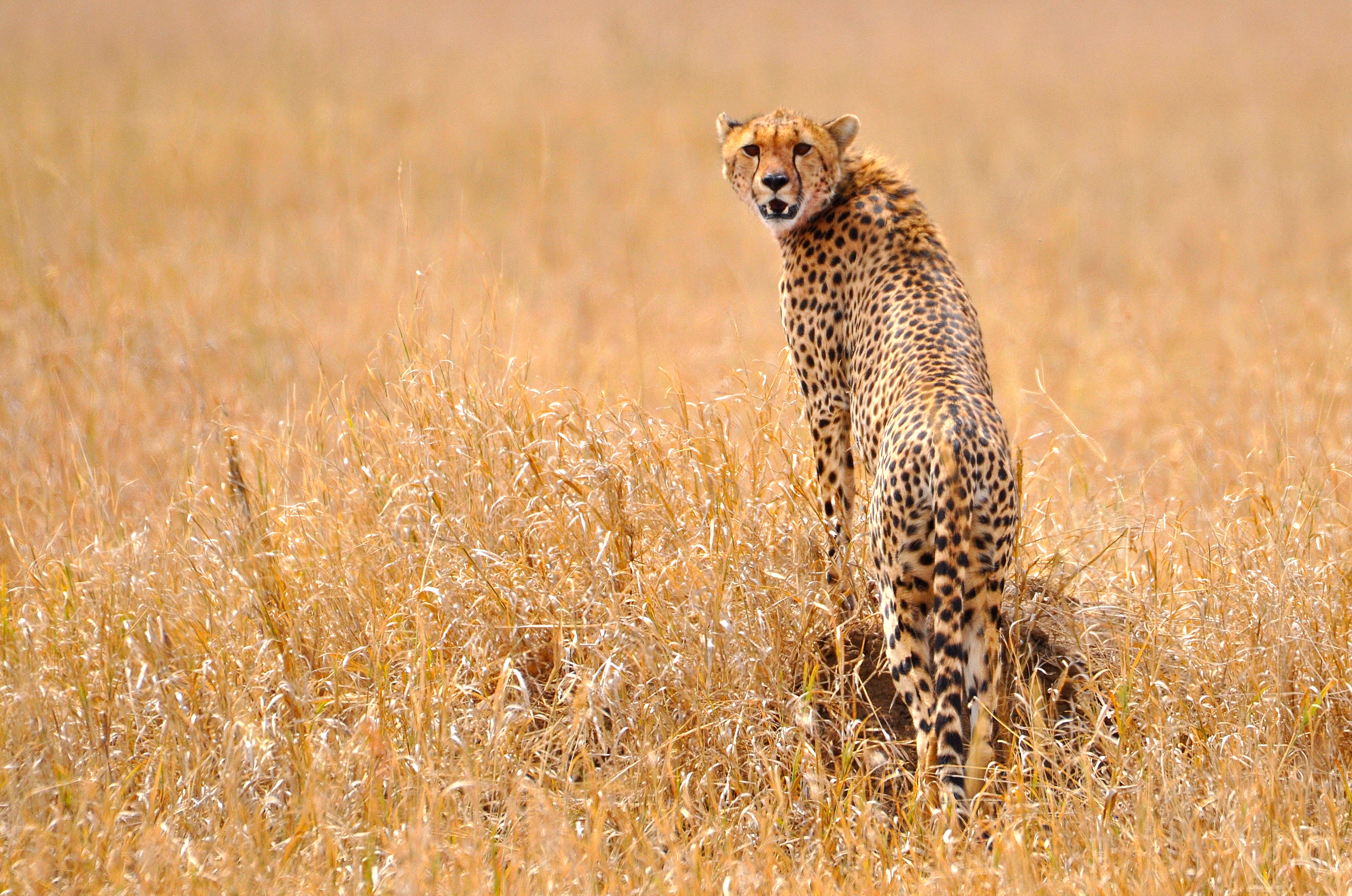 a young male cheetah (Acinonyx jubatus) standing on a termite hill in Serengeti National Park, Tanzania